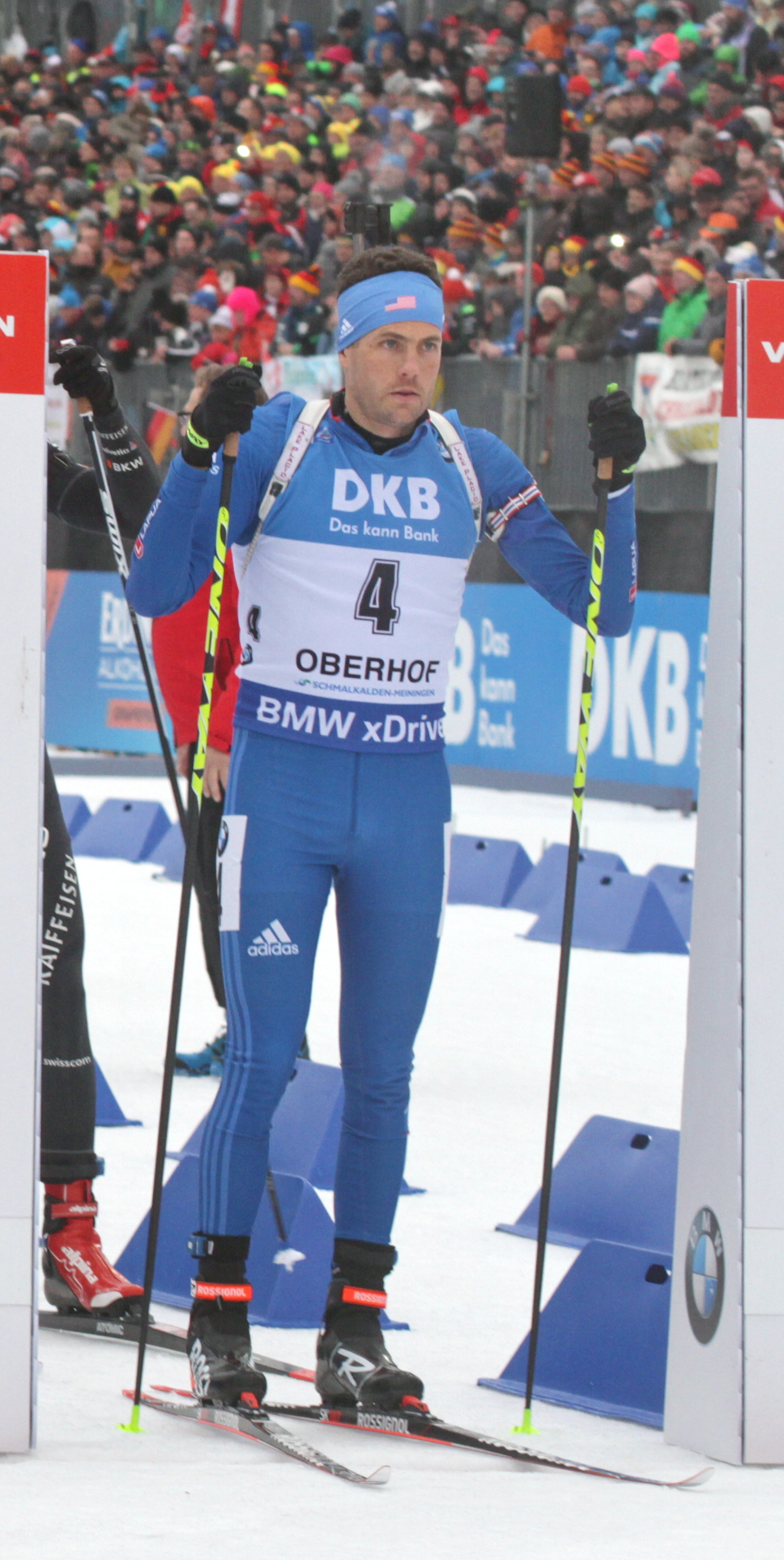 2018 Oberhof Biathlon World Cup - Pursuit Men